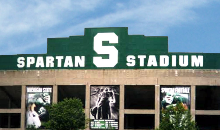 Michigan State Spartans Stadium (taken myself)